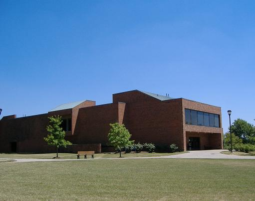 Crestview Hall of Indiana University Southeast.